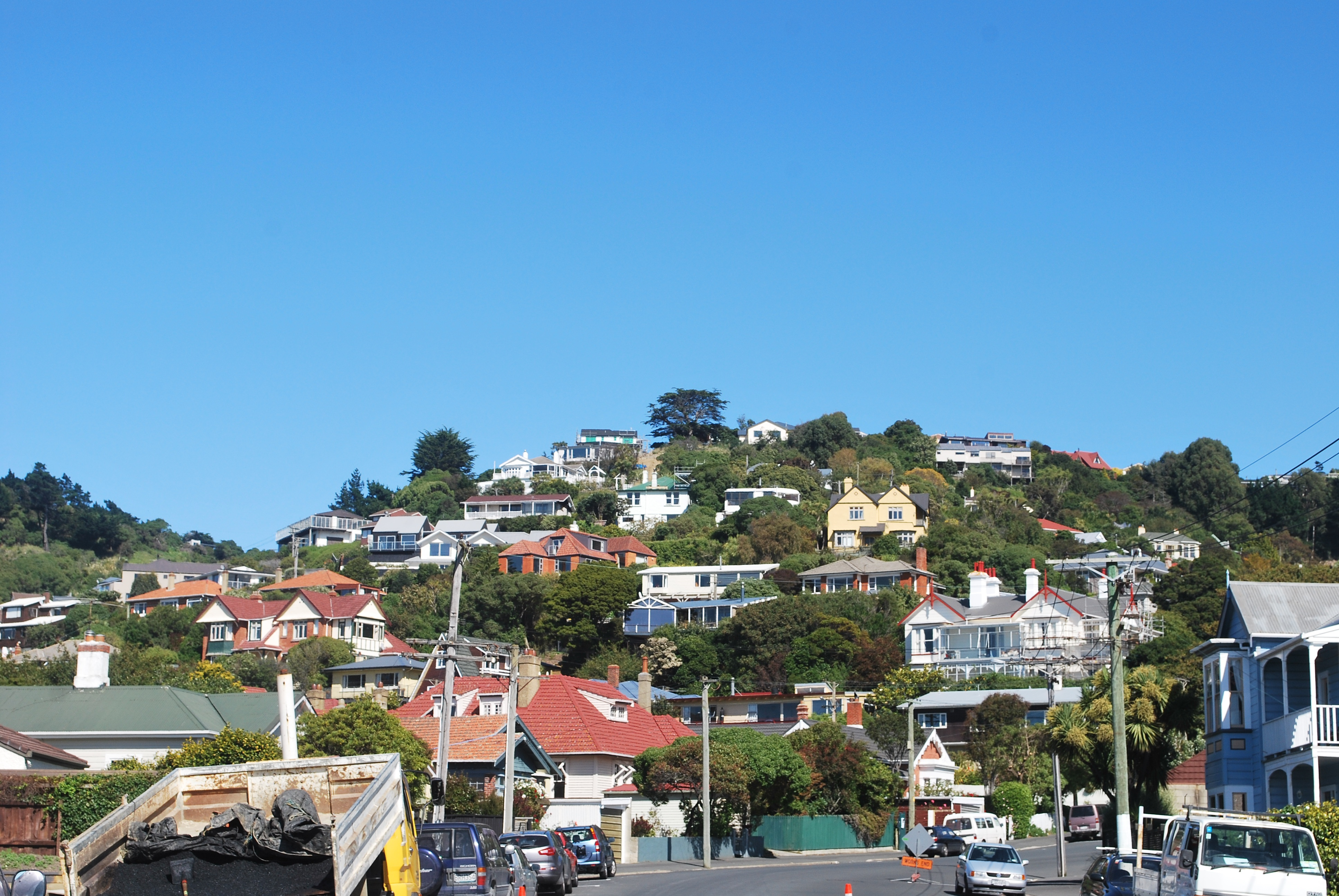 Suburbia in Dunedin, New Zealand